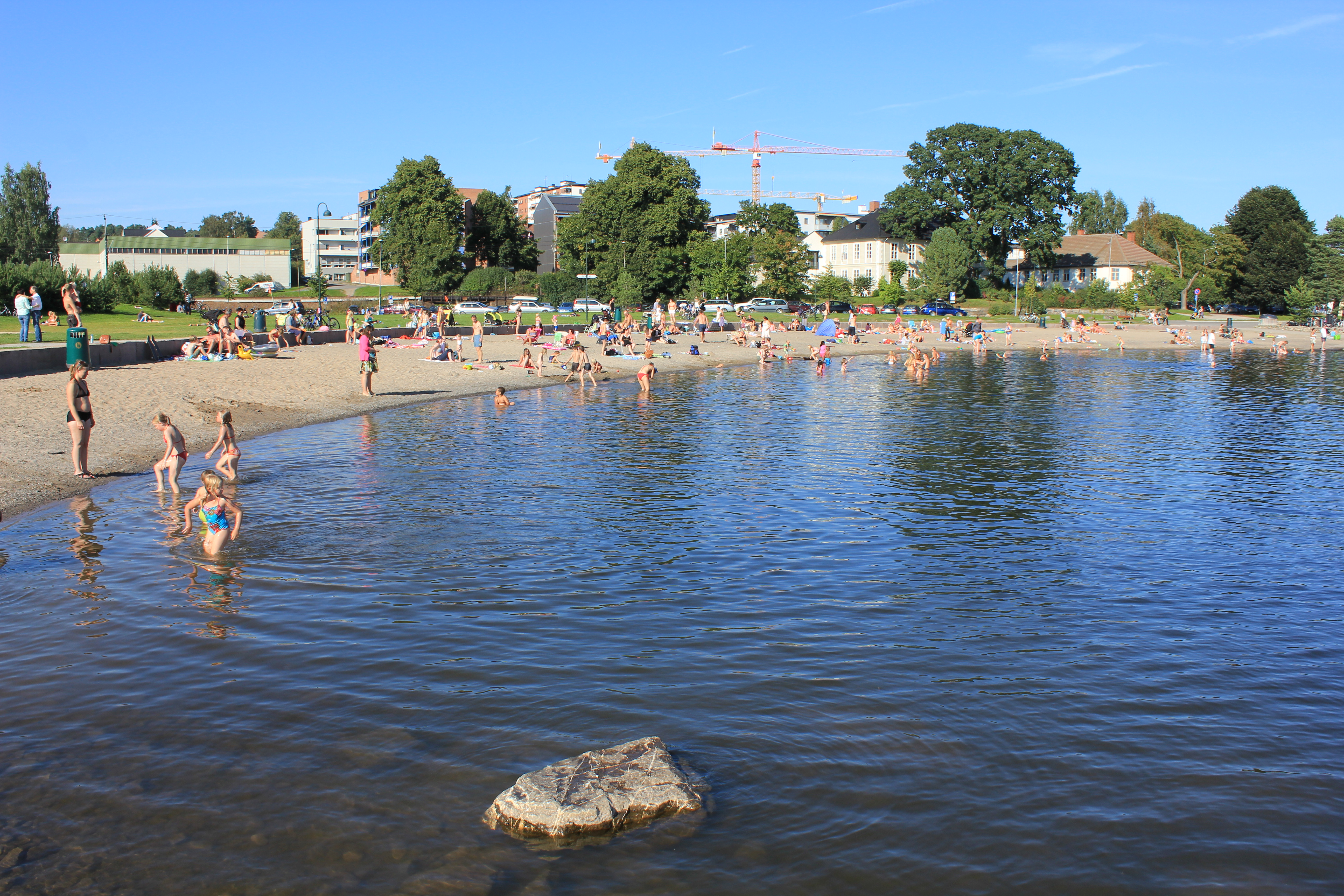 The beach at Koigen by Hamar, Norway.